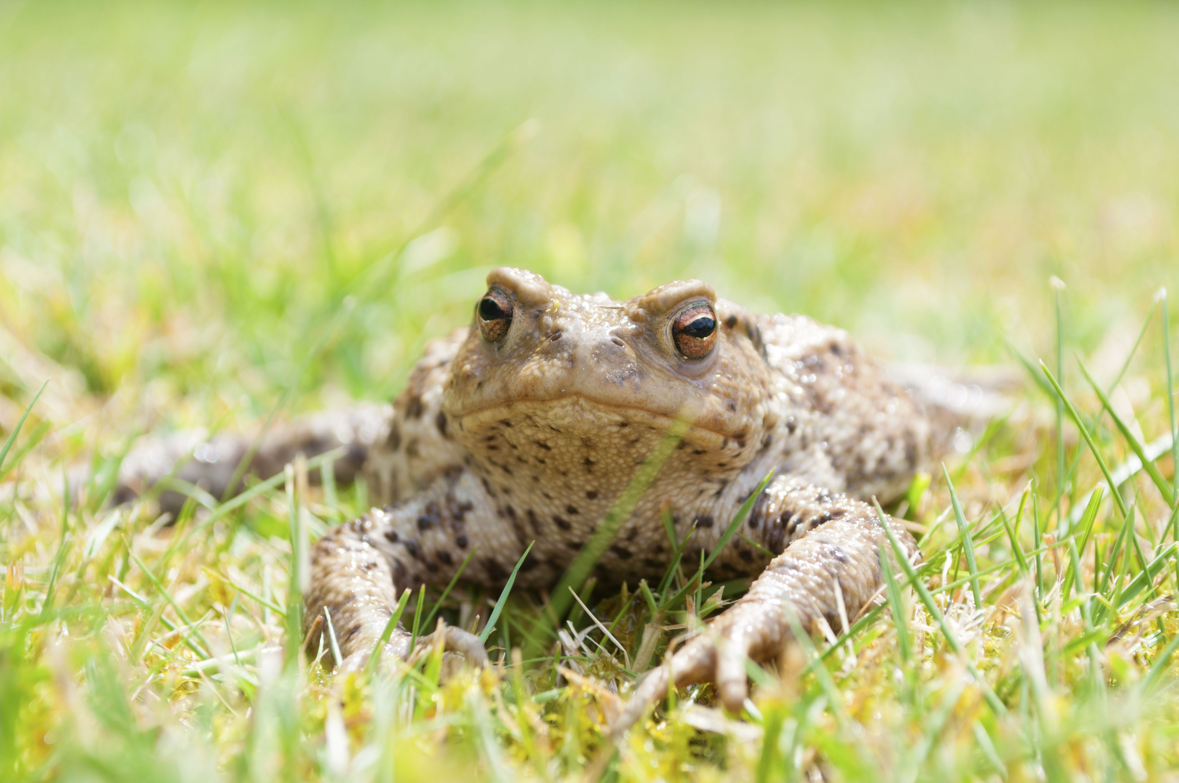 Common toad, found throughout most of Europe